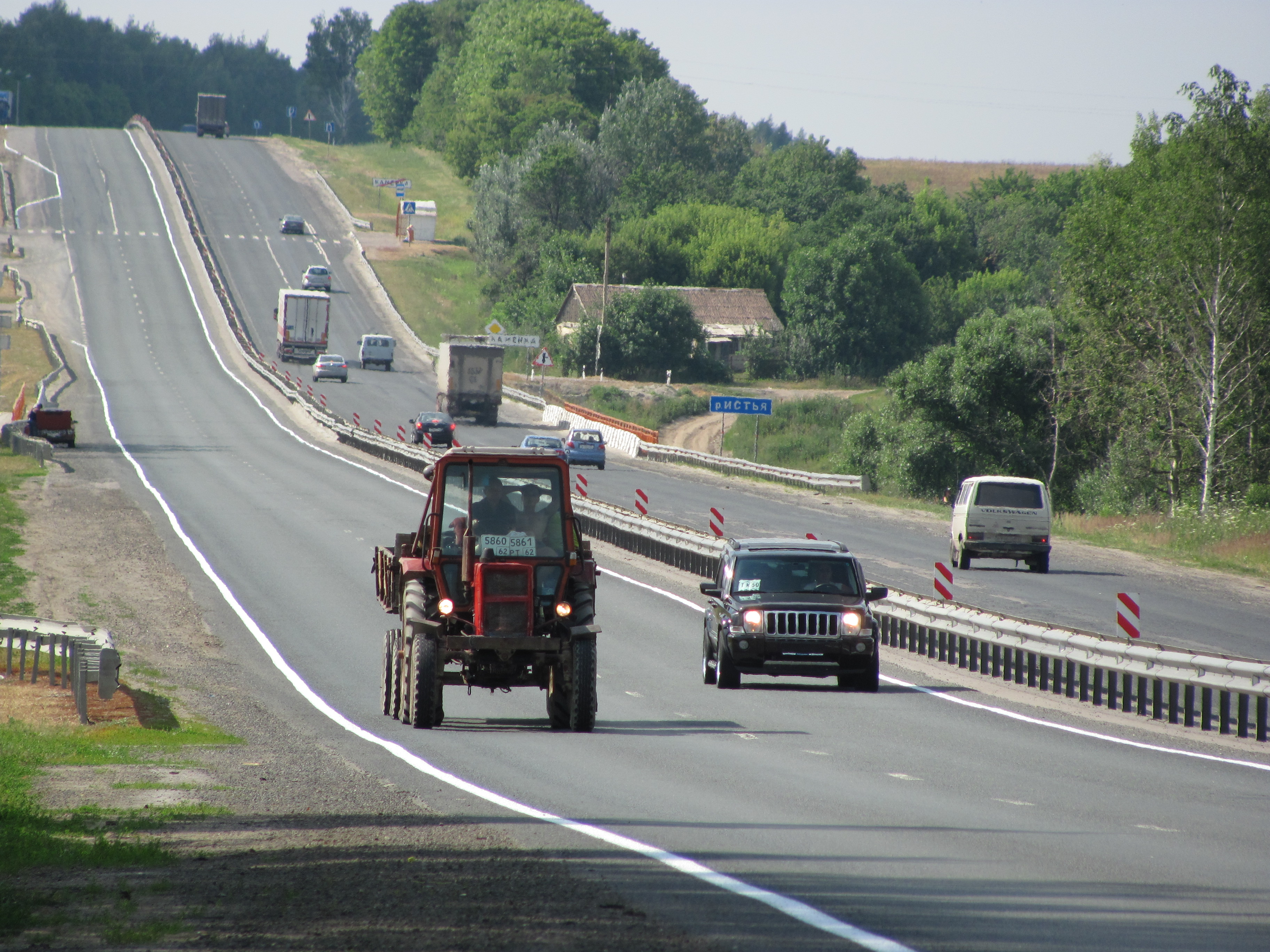 М5 and bridge over river Istya in village Kamenka, Spassky District, Ryazan Oblast.